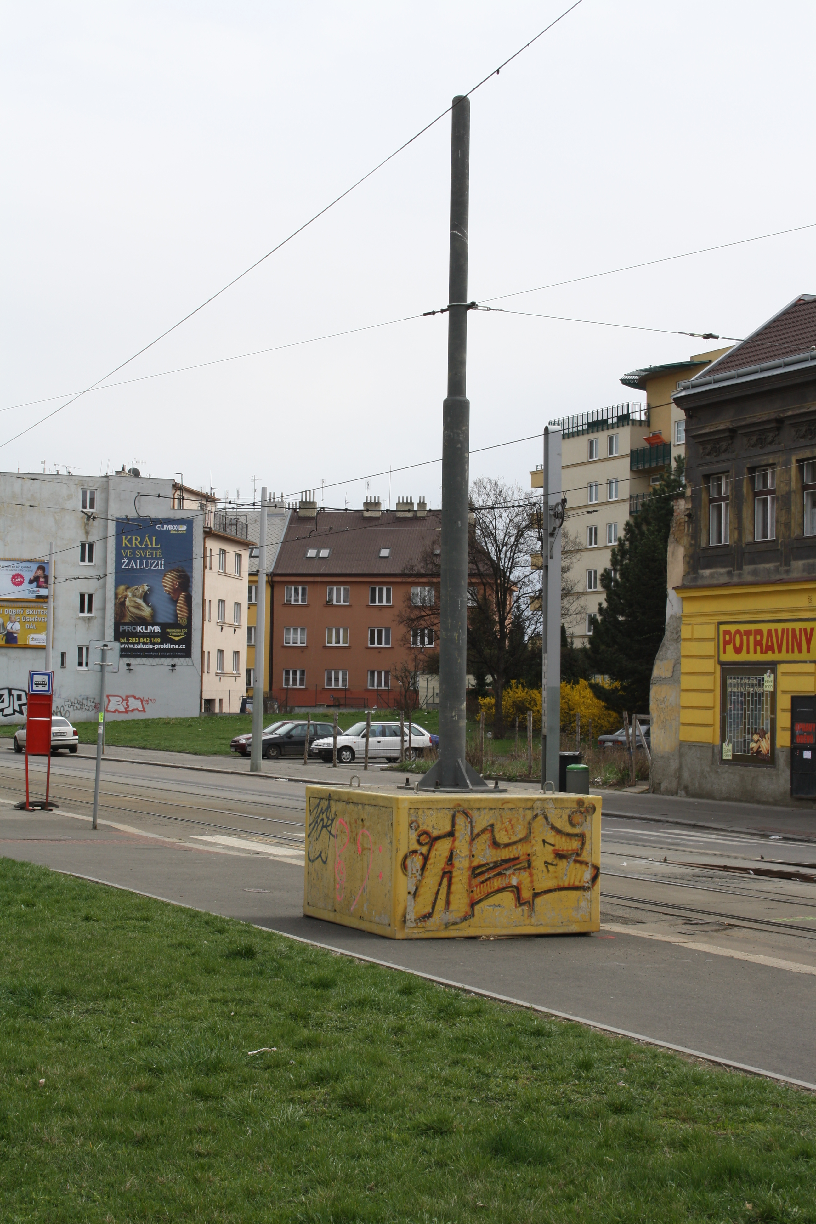 Mobile pylon Zenklova (Prague)